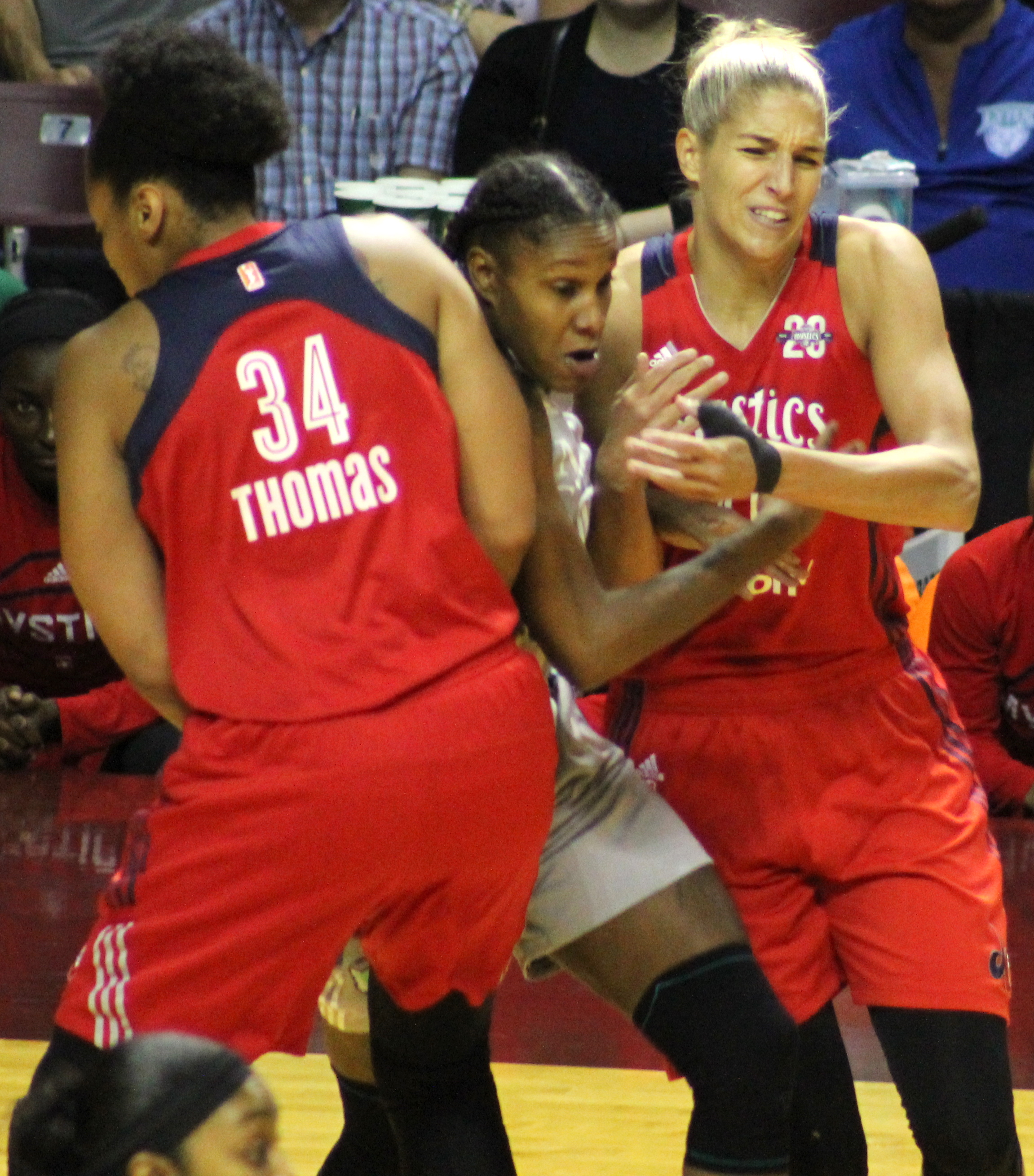 Rebekkah Brunson of the Minnesota Lynx stepping between Krystal Thomas and Elena Delle Donne of the Washington Mystics